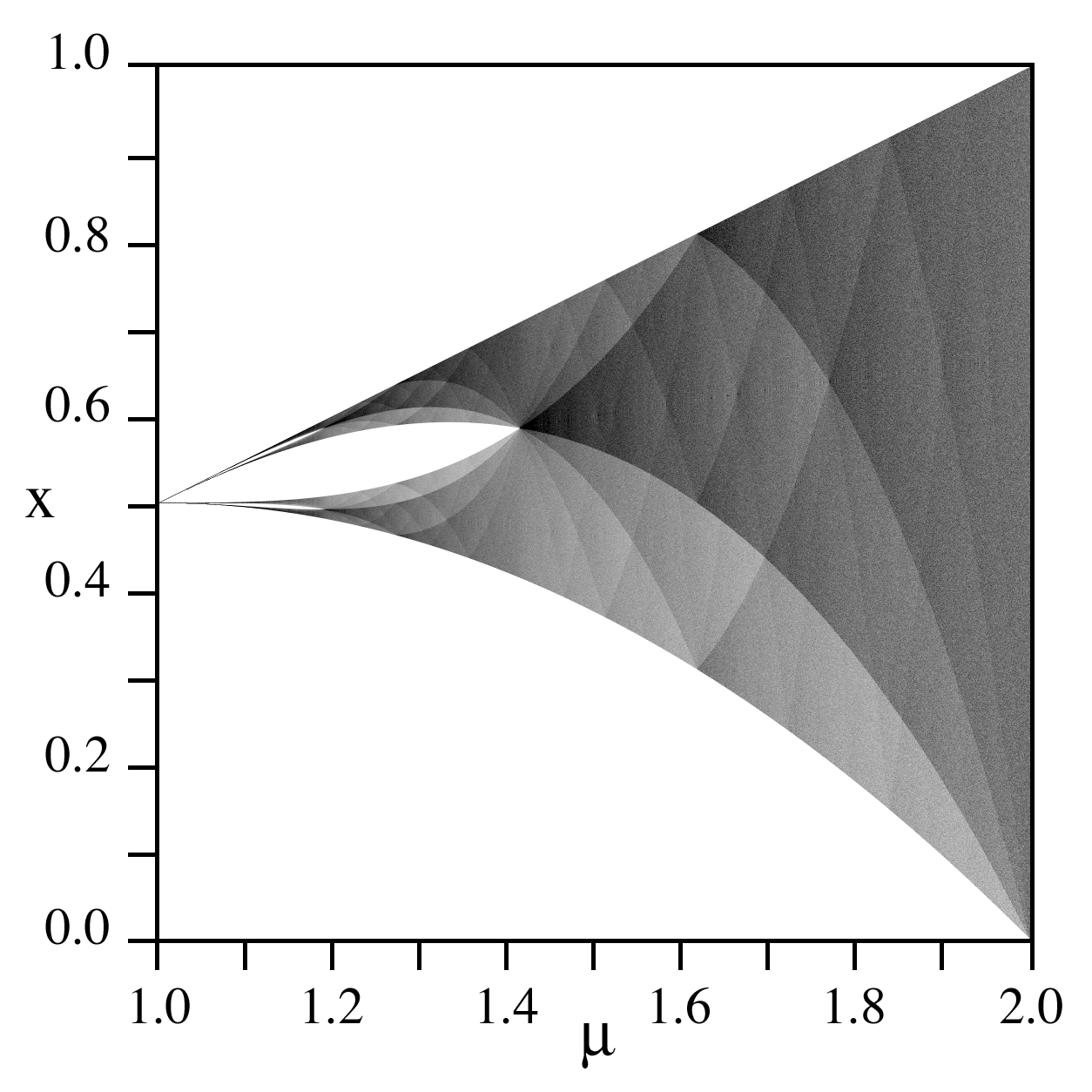 Bifurcation diagram for the tent map. The horizontal axis is the μ parameter, the vertical axis is the x variable. The image was created by forming a 1000 x 1000 array representing increments of 0.001 in μ and x. A starting value of x=0.25 was used, and the map was iterated 1000 times in order to stabilize the values of x. 100,000 x-values were then calculated for each value of μ and for each x value, the corresponding (x,μ) pixel in the image was incremented by one. All values in a column (corresponding to a particular value of μ) were then multiplied by the number of non-zero pixels in that column, in order to even out the intensities. Finally, values above 180,000 were set to 180,000, and then the entire image was normalized to 0-255.